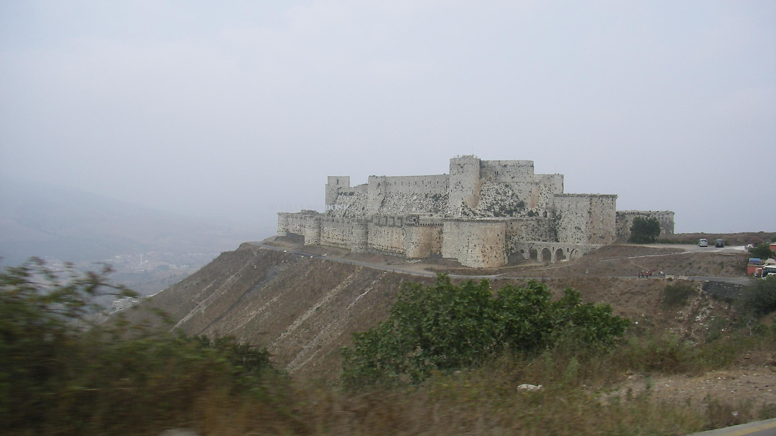 Kurds castle or Krak des Chevaliers